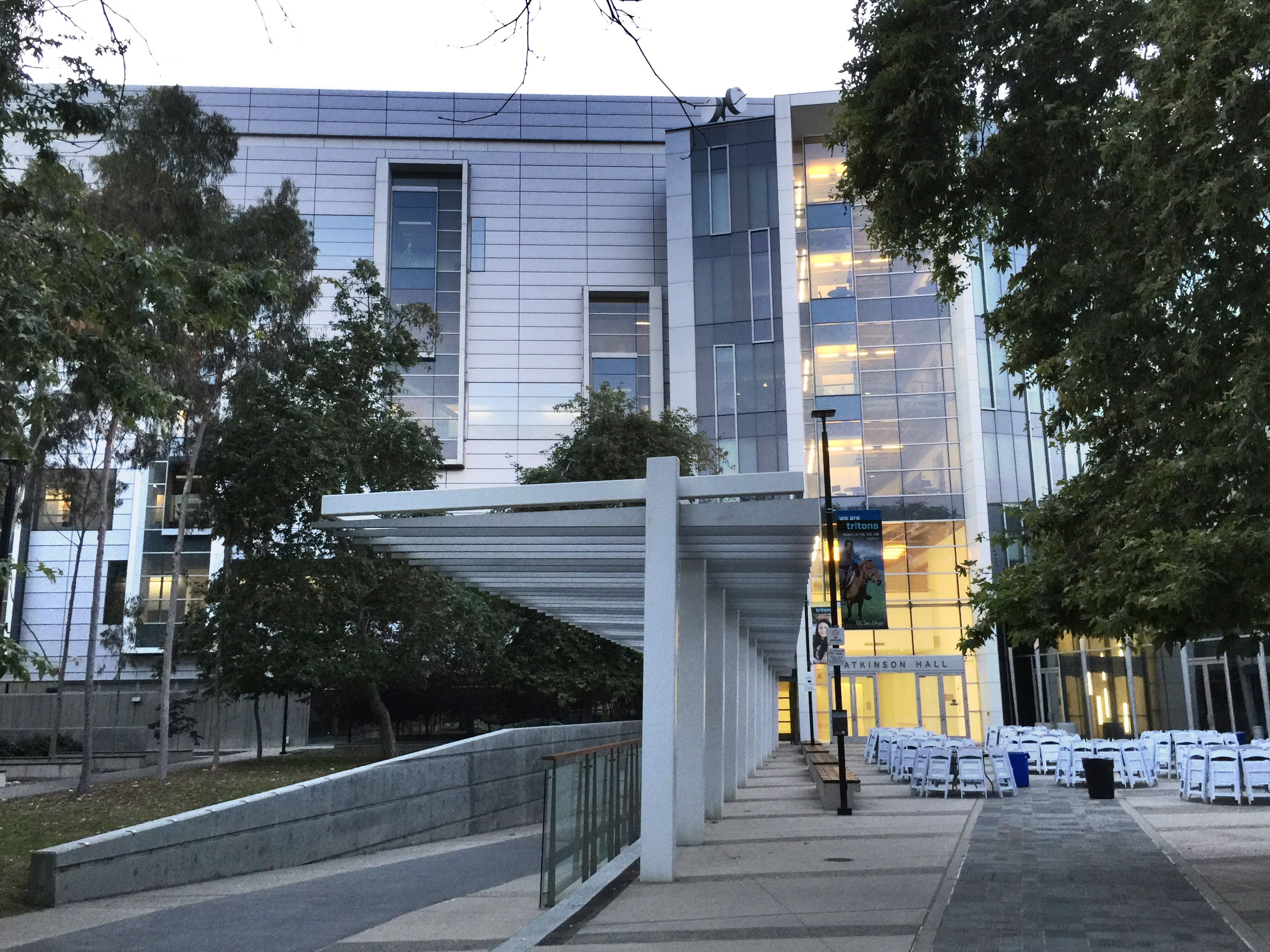 Atkinson Hall at the University of California, San Diego, housing the Qualcomm Institute—the UC San Diego division of the California Institute for Telecommunications and Information Technology (Calit2)